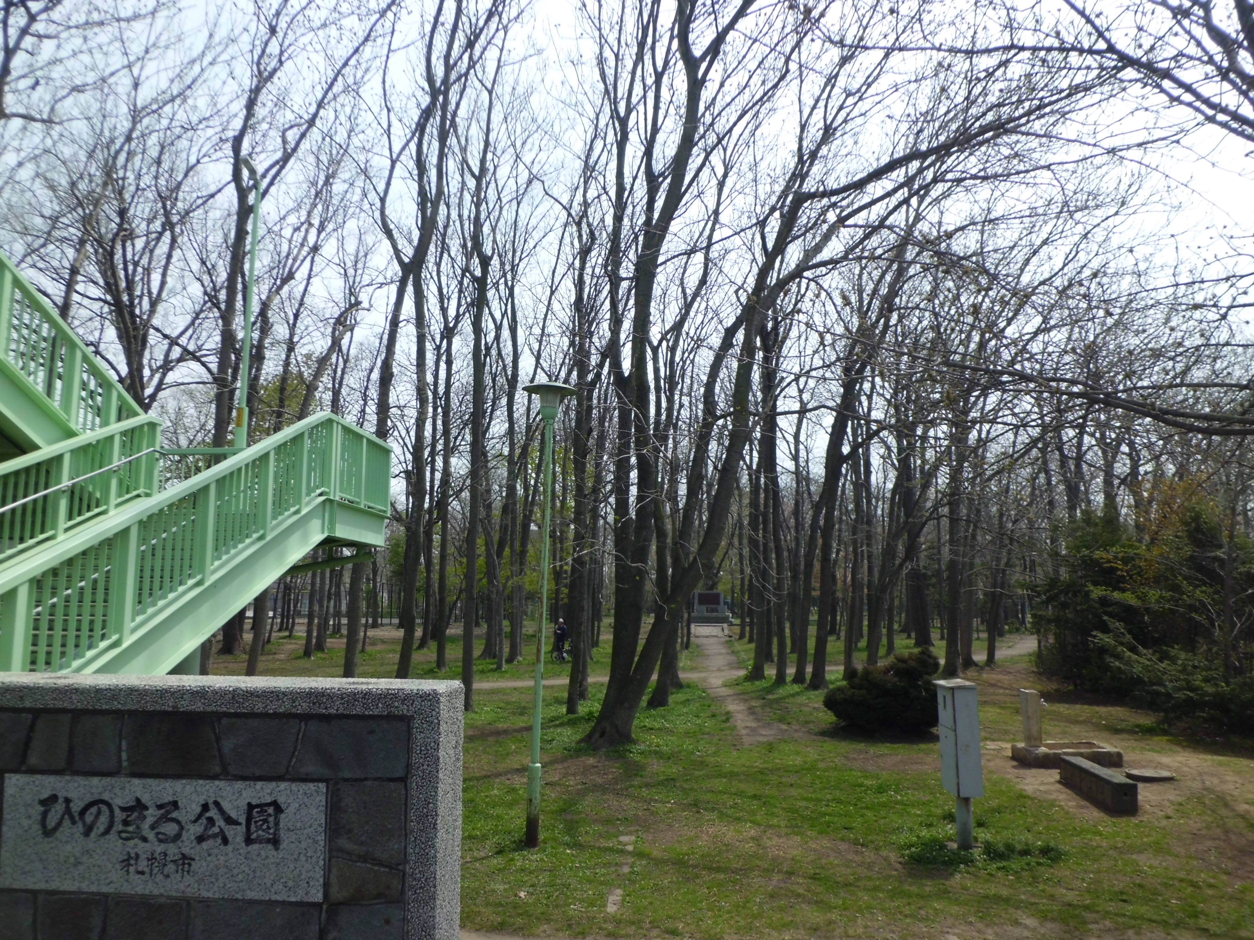 Hinomaru Park in Higashi-ku, Sapporo